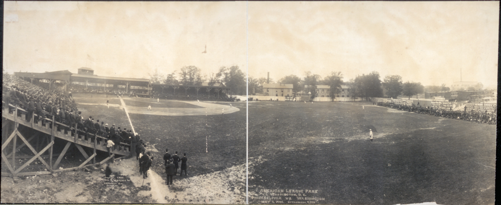 American League Park, Washington, D.C., Philadelphia vs. Washington, May 6, 1905, attendance 9,300. Photo courtesy of Library of Congress.